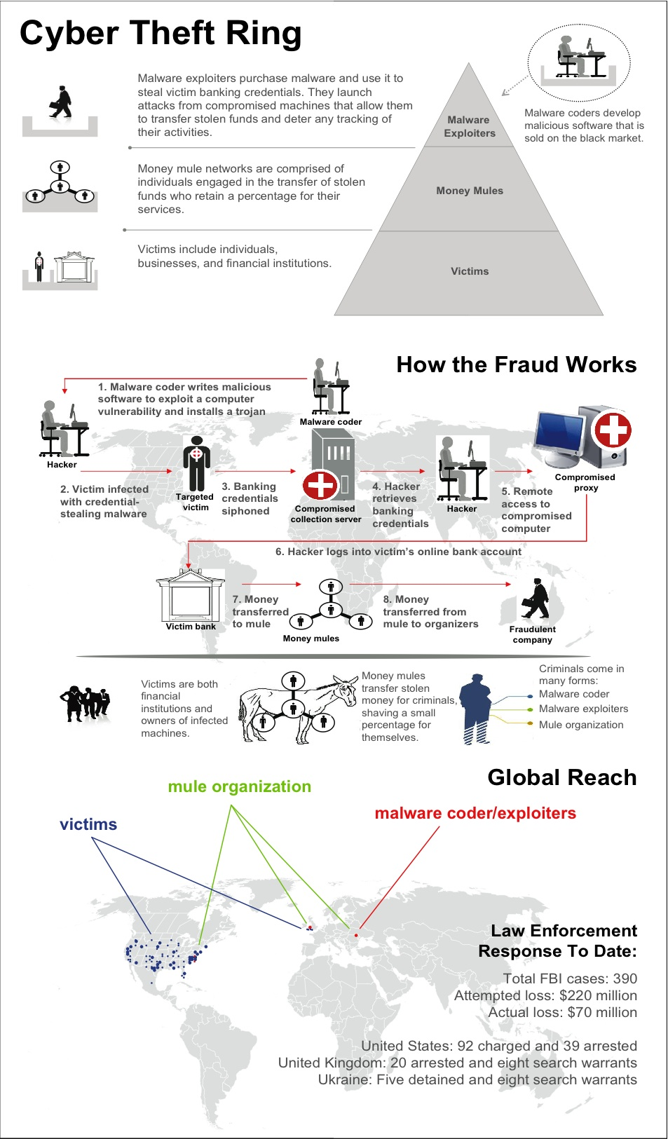 A Fraud Scheme provided by FBI